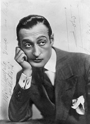 Totò sign picture in 1943-04-04.